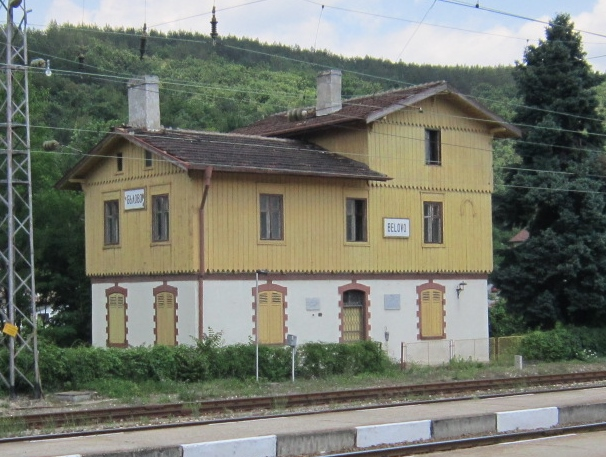 The old railway station in the town of Belovo, Bulgaria